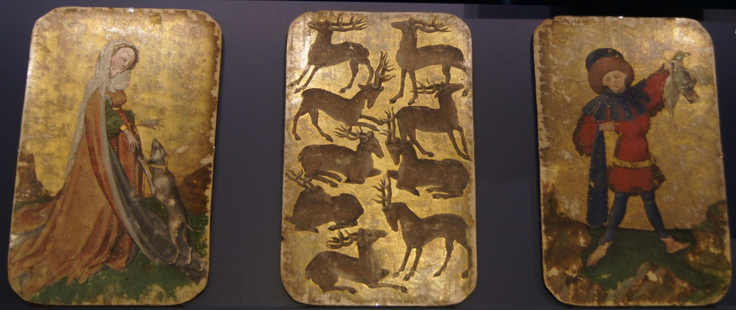 Stuttgarter Kartenspiel, Stuttgart Card Game, Basel area, about 1430, Landesmuseum Württemberg (Stuttgart, Kunstkammer)